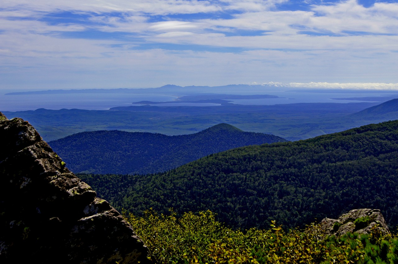 View to Tunaycha lake from ~1000m above sea